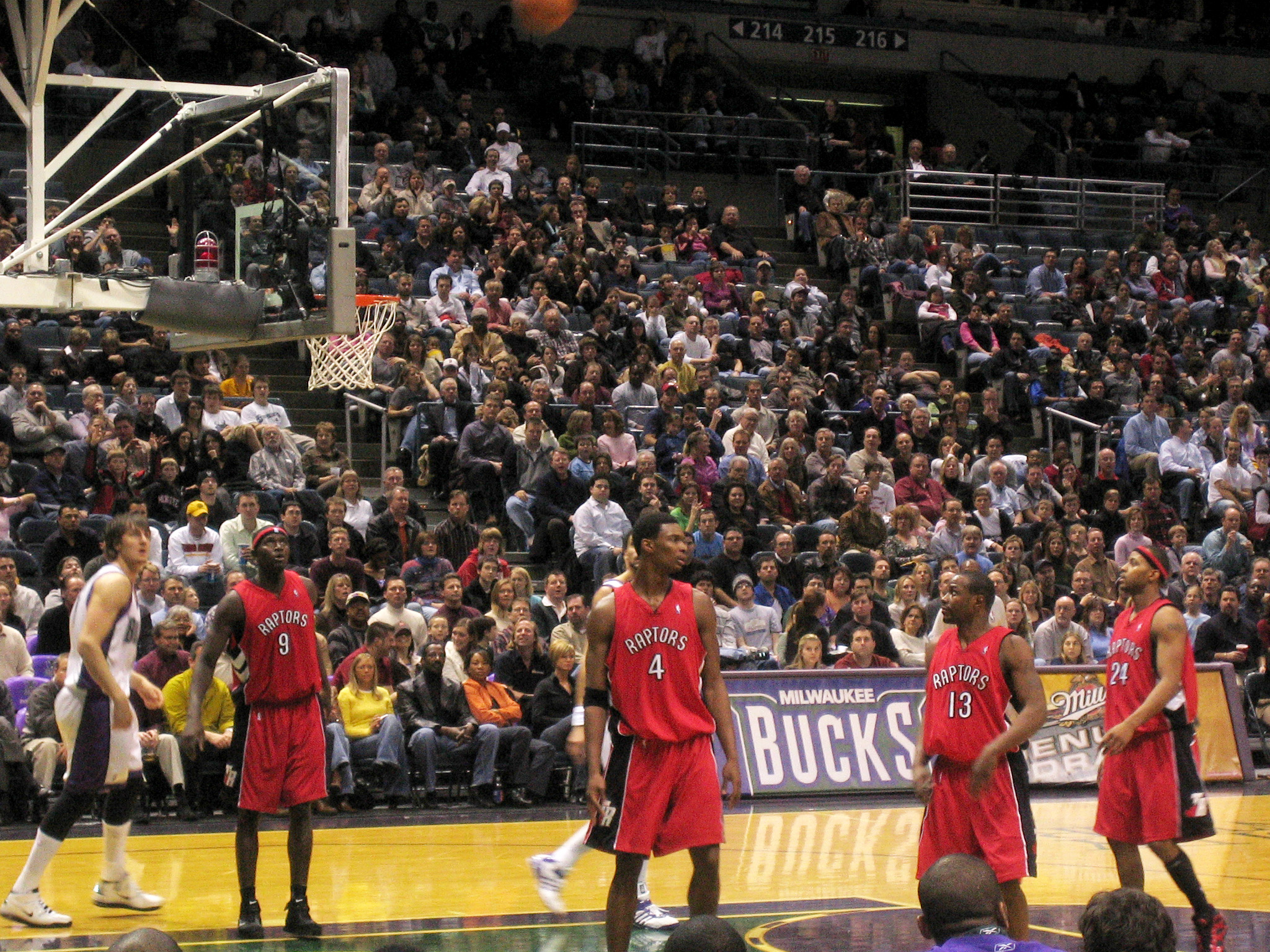 Chris Bosh of the Toronto Raptors.